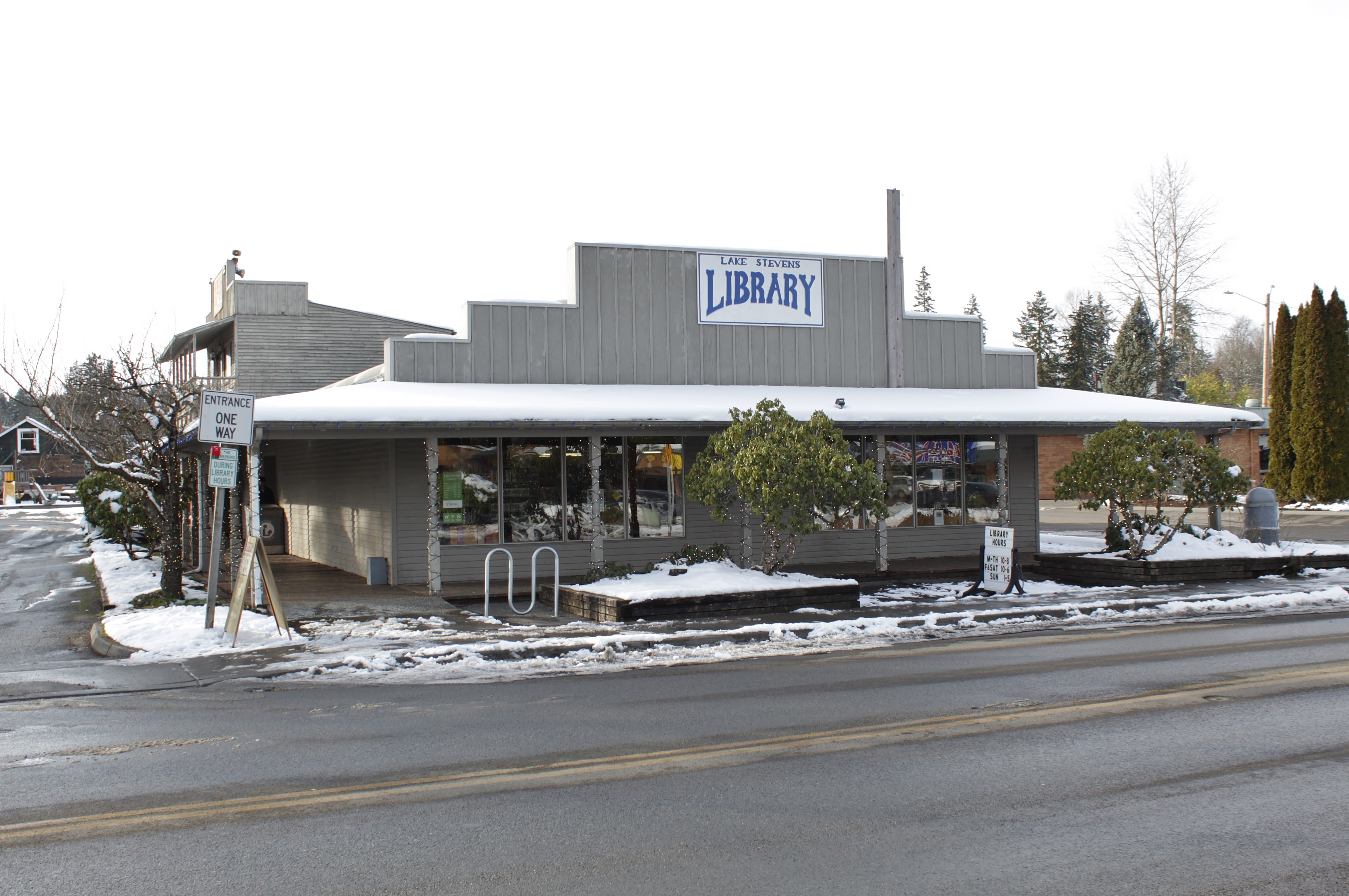 The public library of Lake Stevens, Washington, operated by Sno-Isle Libraries.